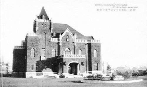 Kwantung commander official mansion.